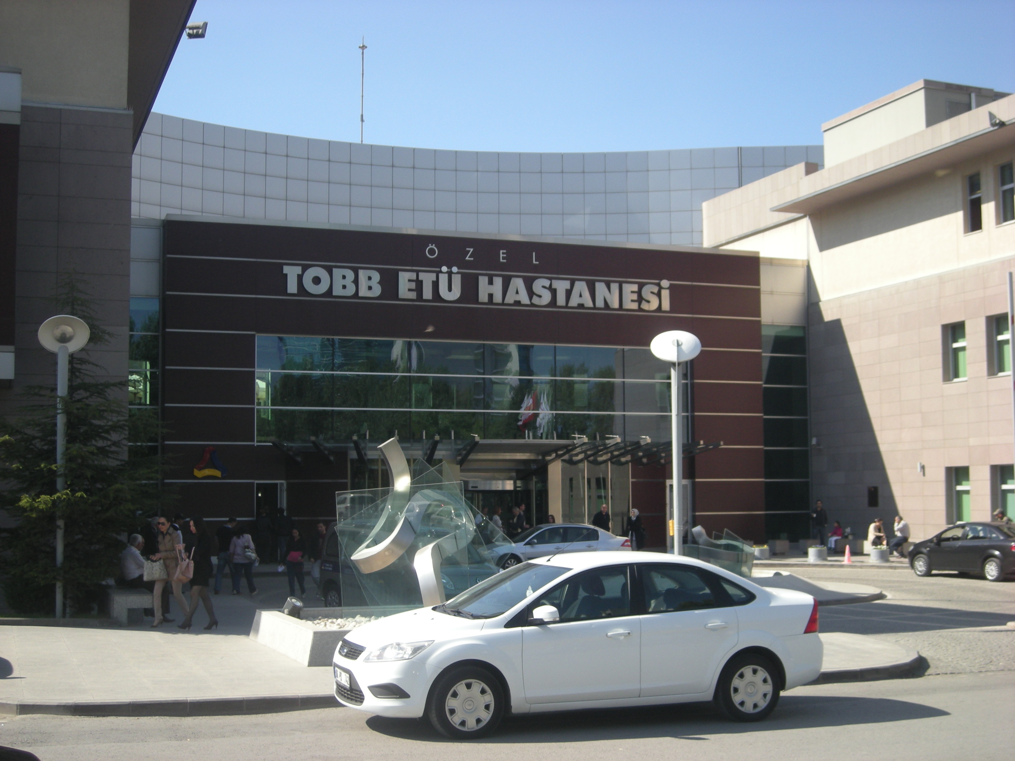 TOBB ETÜ Hospital.